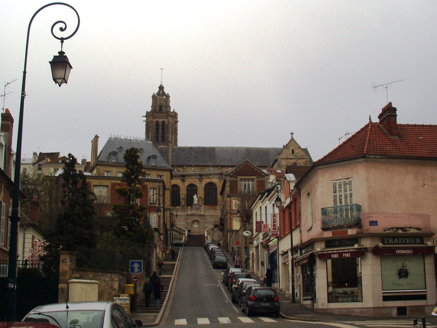 Pontoise, Cathedral